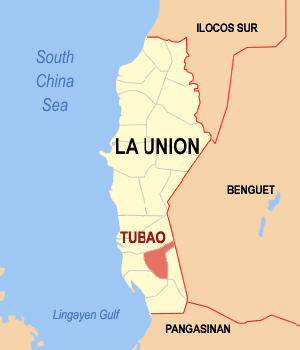 Map of La Union showing the location of Tubao